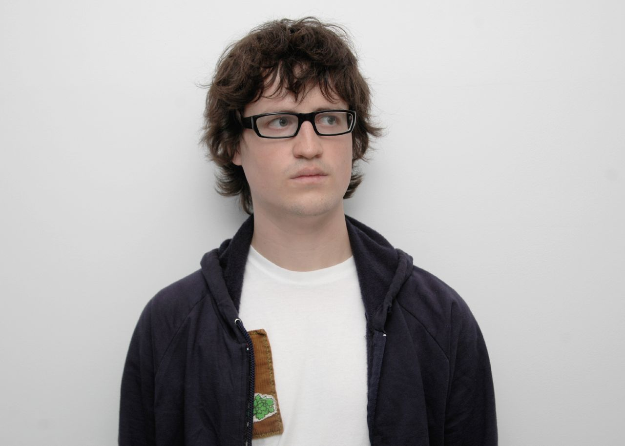 Jakob Lodwick, co-founder of Vimeo Original image description: I have been a developer at CV since the Clinton Administration. In order to meet the company's needs during the tumultuous Bush years, I learned how to run databases and do programming. I mostly use PHP and MySQL to accomplish these goals. I have a lot of hobbies outside of work, which I alternatively obsess over. I like to read books and magazines, especially ones that are too smart for me. I enjoy producing and composing music and making videos – especially editing them. I like socializing and drinking, but in moderation. I'm not into drugs other than that, though I used to be in college. I don't drink caffeine, ever, anymore. I hate talking on the phone but I love face-to-face conversation. My favorite physical activity is dancing. My favorite emotional activity is crying, but I haven't done it in a long long time. Break my heart. I get an adrenaline rush when I'm in front of a crowd, and I love making presentations and otherwise performing. I was born July 25, 1981.